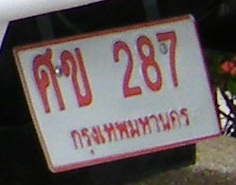 A Thai private tuk-tuk licence plate